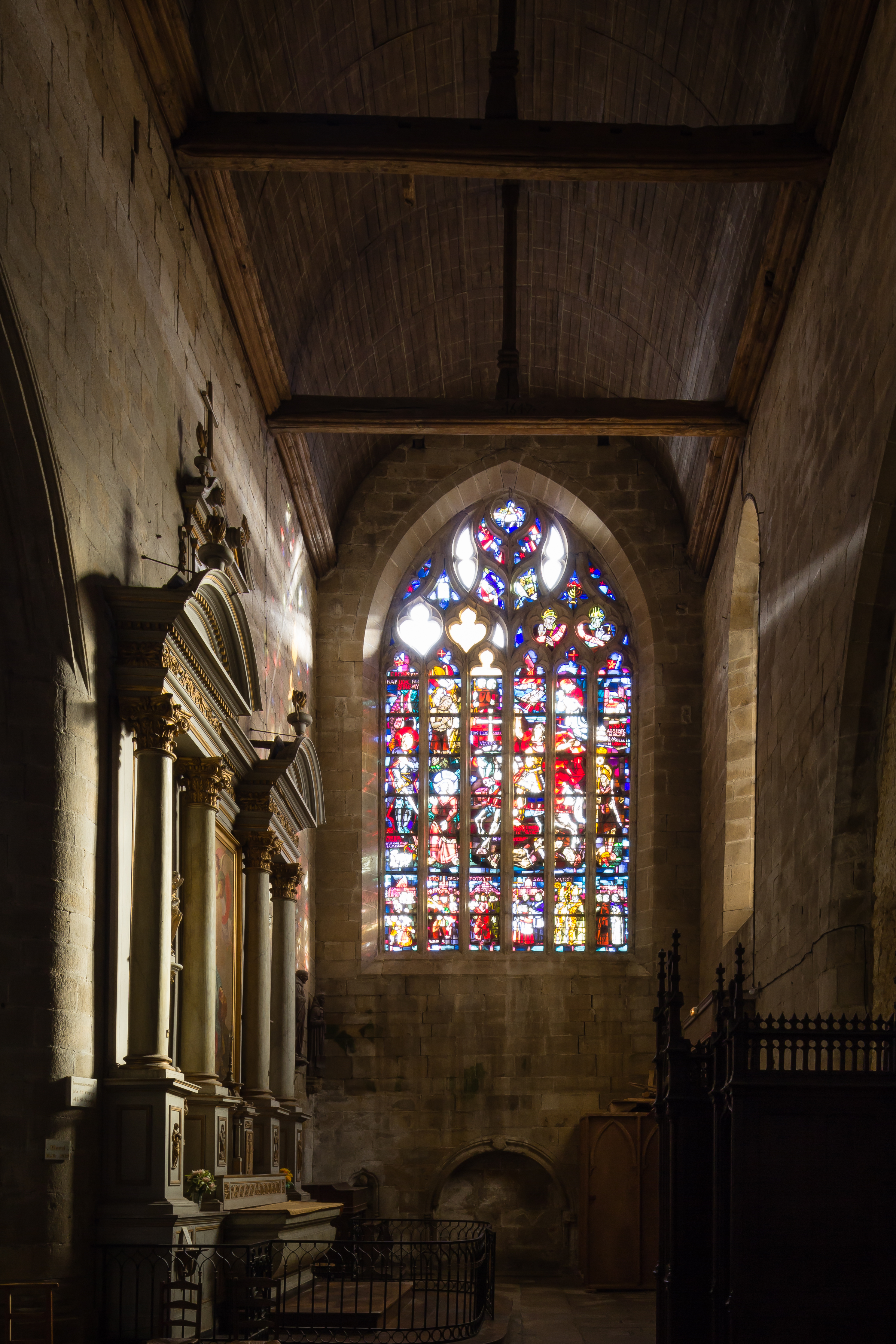 South arm of the transept of the basilica of the Holy Savior in Dinan (France)